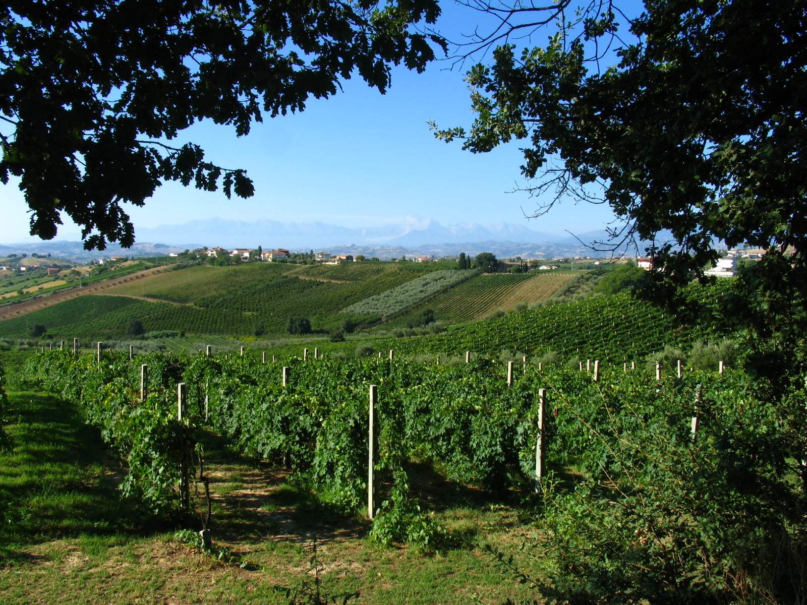 Pic taken outside Corropoli, Abruzzo, Italy. Vines and vineyards together with olive trees and oaks